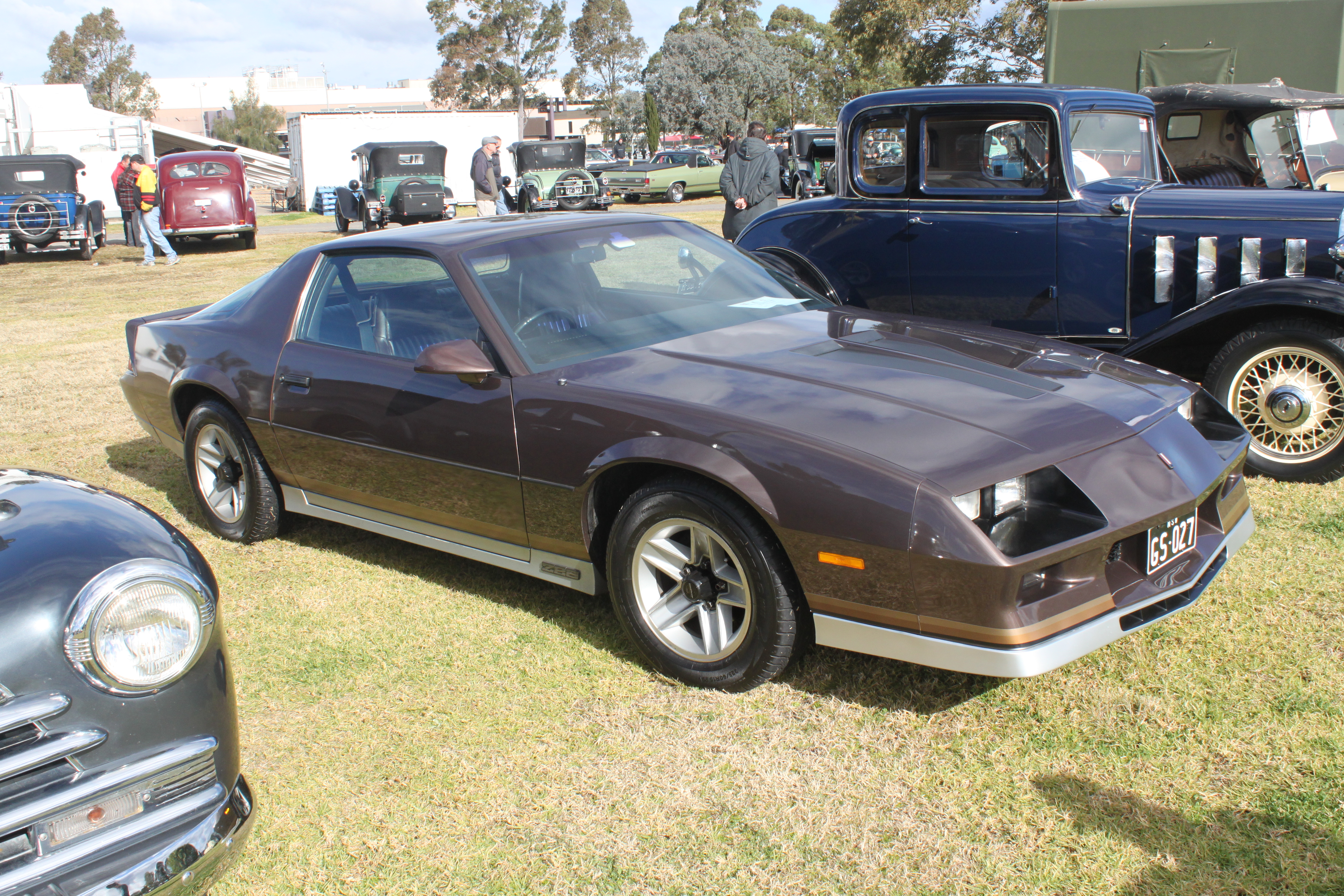 GM Display Day, Penrith Panthers, NSW July 2015